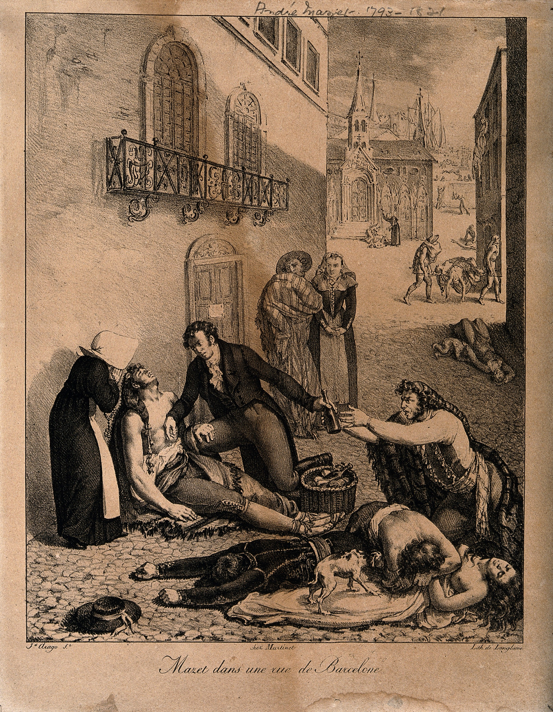 André Mazet tending people suffering from yellow fever in the streets of Barcelona. Lithograph by Langlumé after Martinet after J. Arago. Iconographic Collections. Keywords: Yellow Fever; André Mazet; Jacques-Etienne-Victor Arago; Langlumé; mazet, andre; Martinet